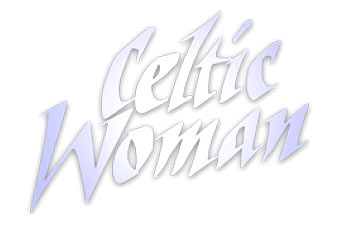 Celtic Woman current title logo